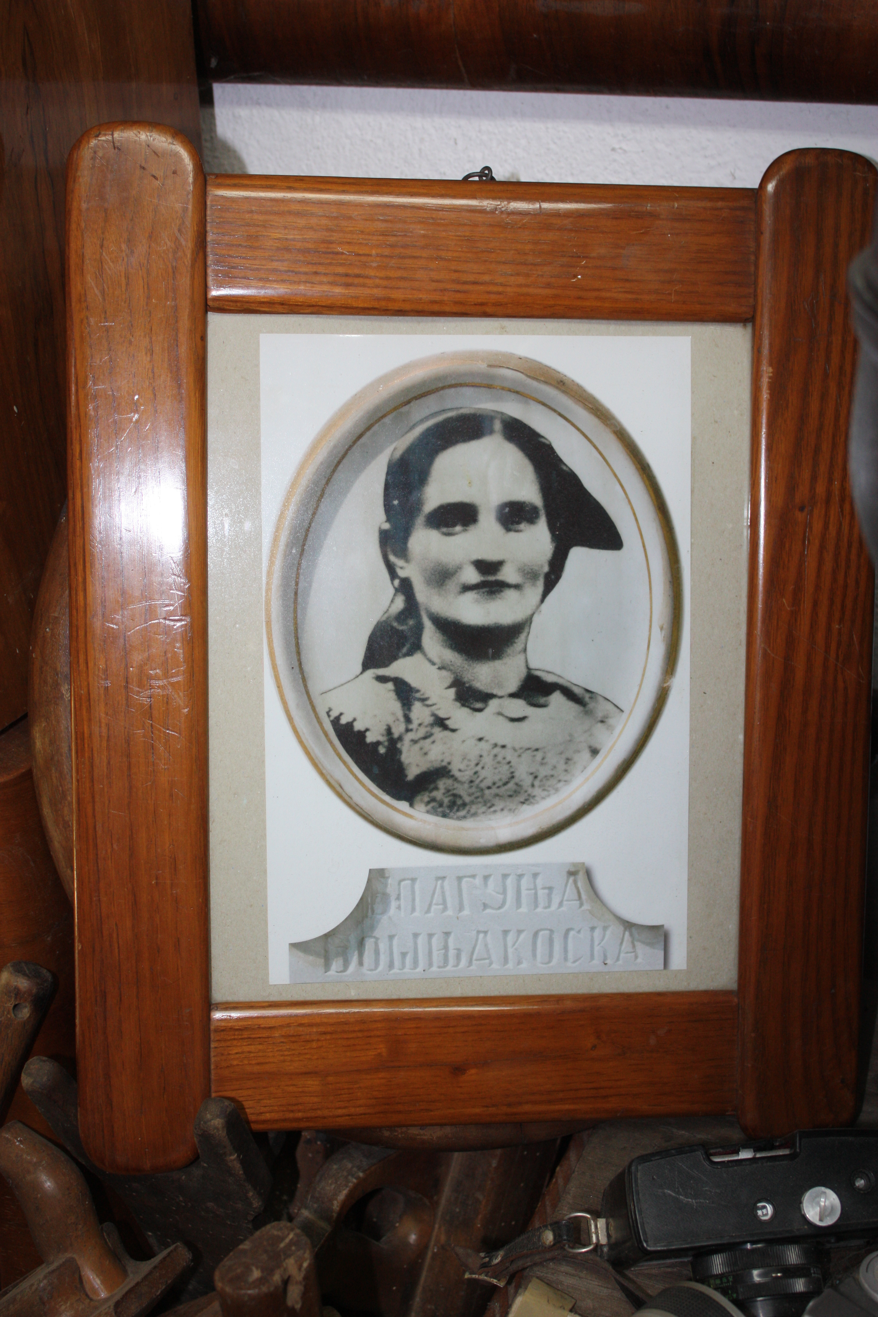 The World’s Smallest Ethnological Museum in Džepčište near Tetovo in Macedonia